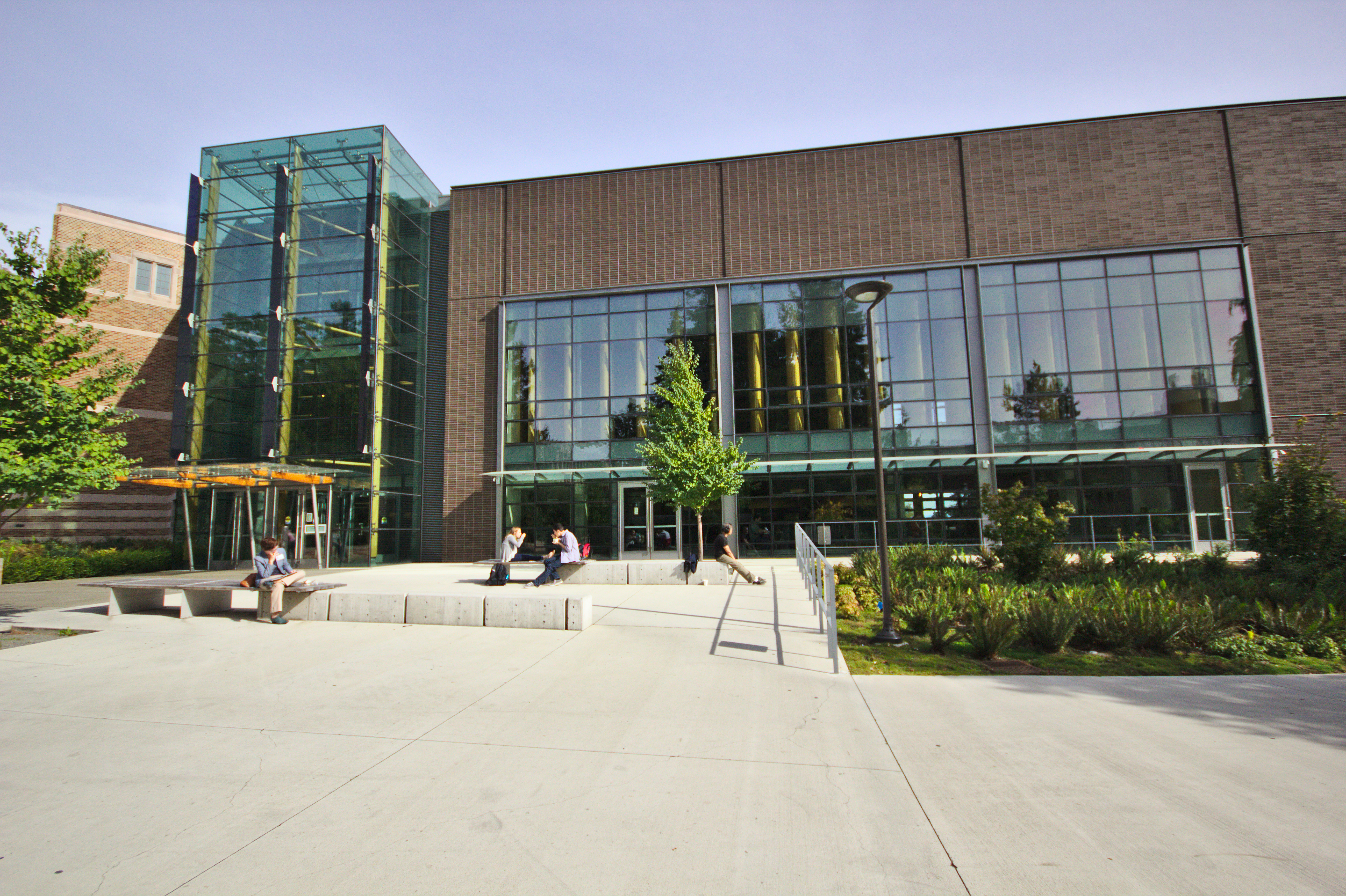 One of the entrances to the Husky Union Building (HUB) on the University of Washington campus